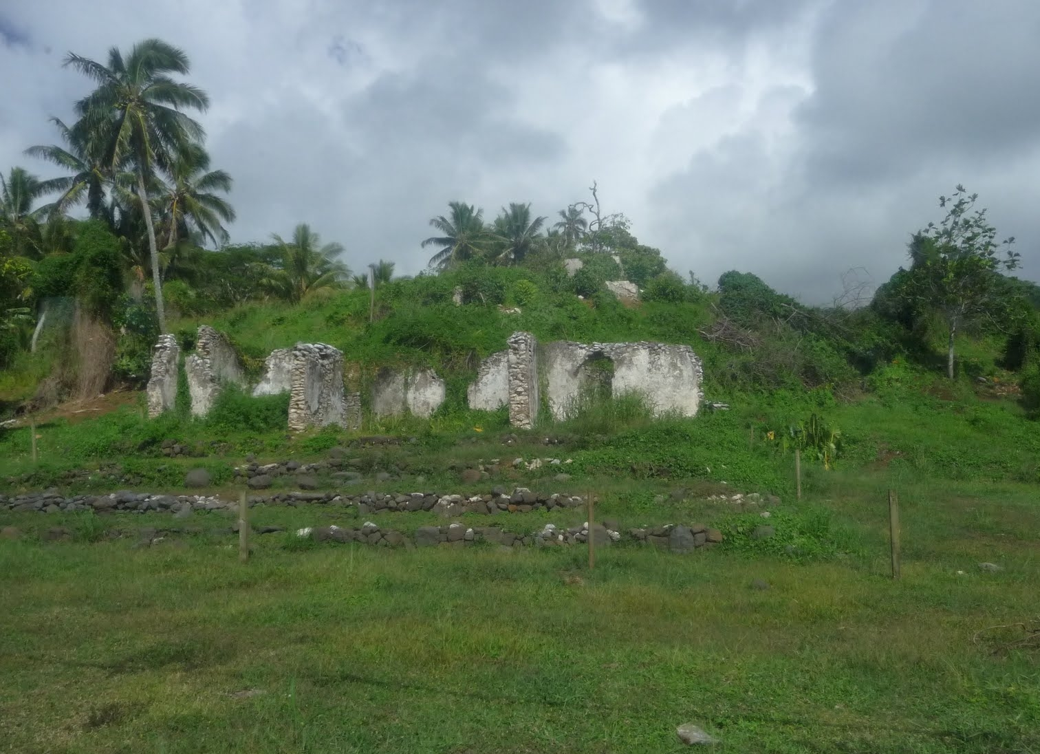 The ruins of Pa's Palace, constructed from coral and lime cement, once was the residence of the high-chiefs of the Takitumu district in Rarotonga, Cook Islands.